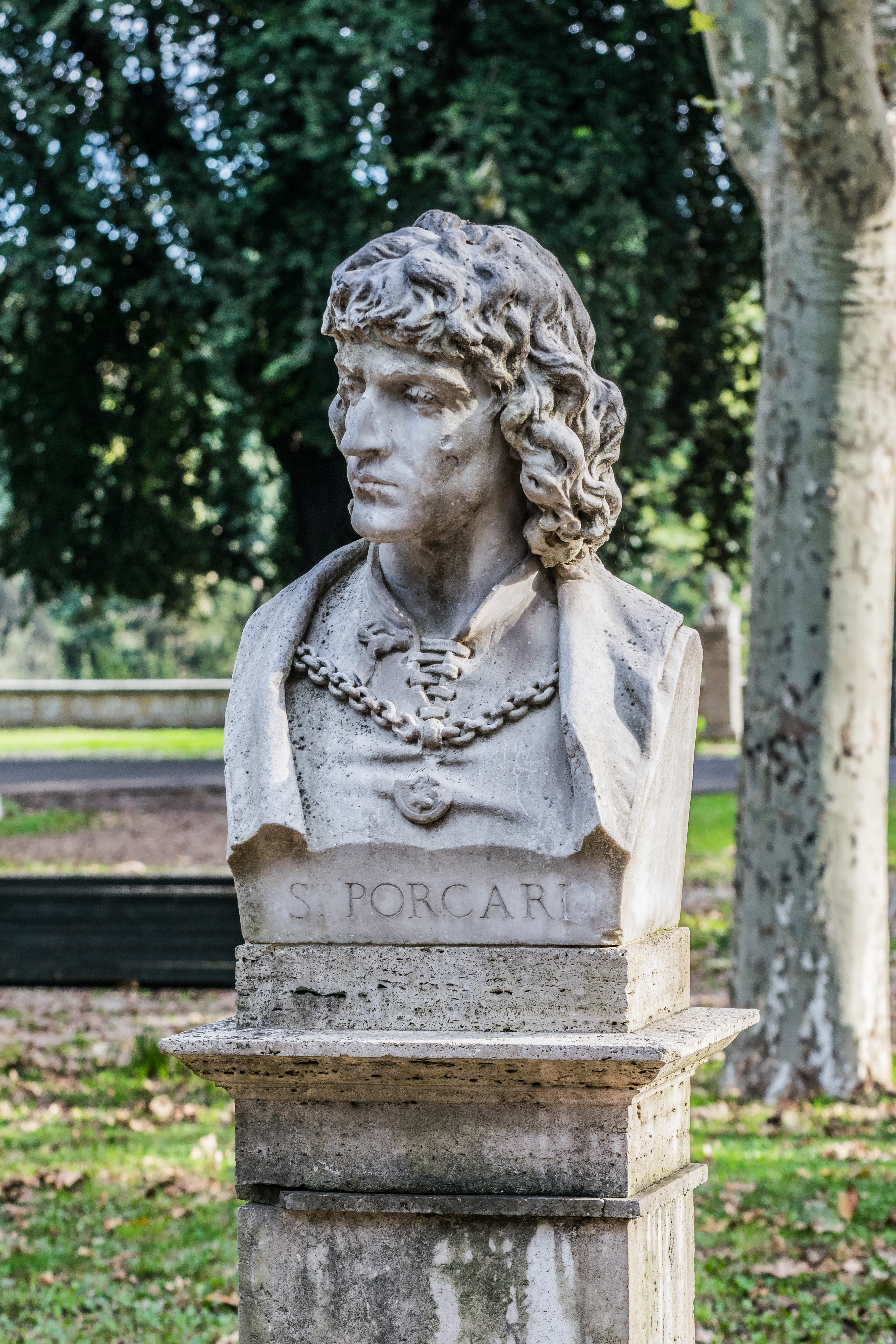 Statue of Stefano Porcari in the garden of Villa Borghese in Rome, Italy